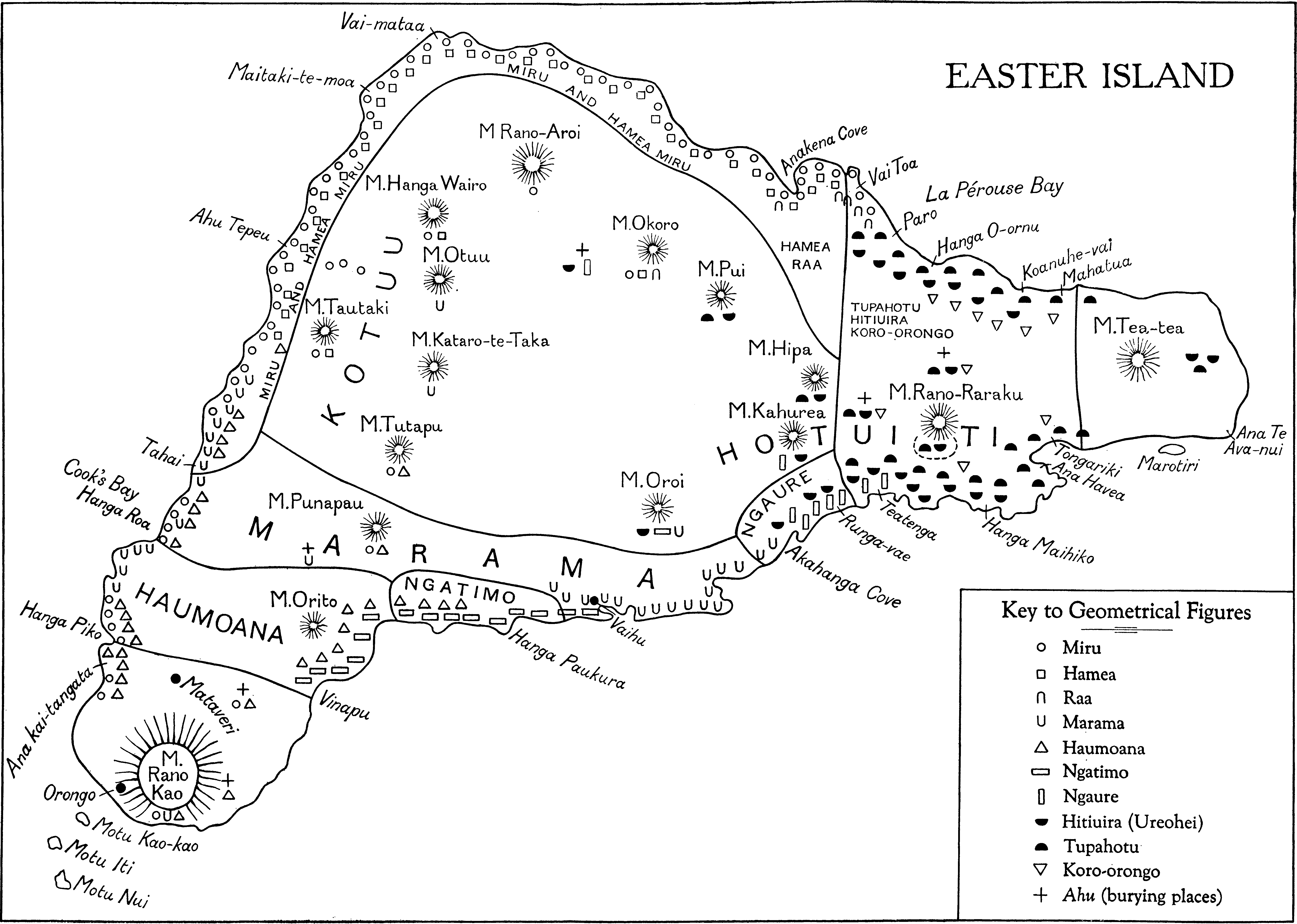 Maps from the plate section of book of Robert Wood Williamson: The Social and Political Systems of Central Polynesia, 1924, Vol. 1, fourth map, inset map facing page 368